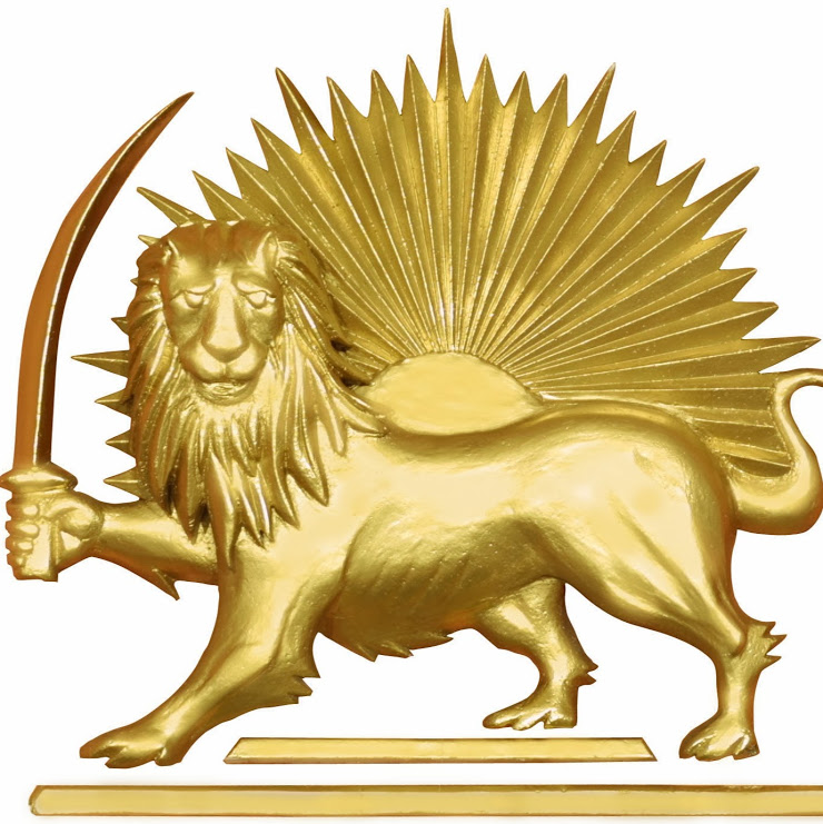 National Council of Resistance Logo